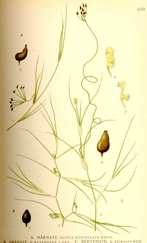 Ruppia rostellata, Ruppia brachypus and Ruppia spiralis